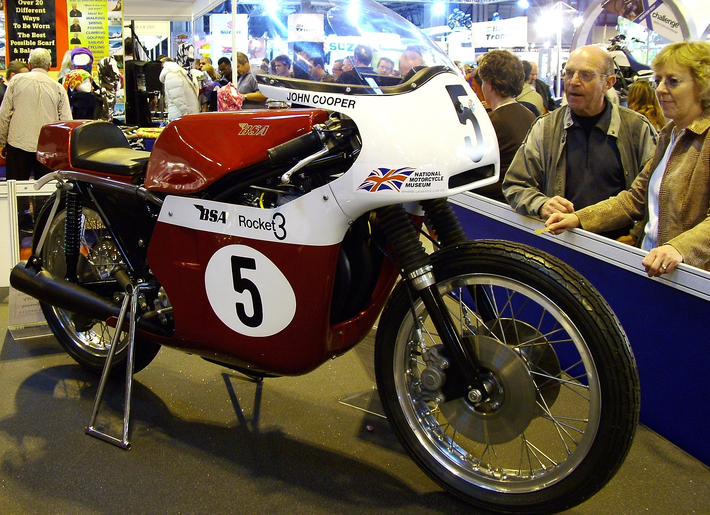 BSA Rocket 3 1971 @ 2006 NEC Motorcycle and Scooter Show